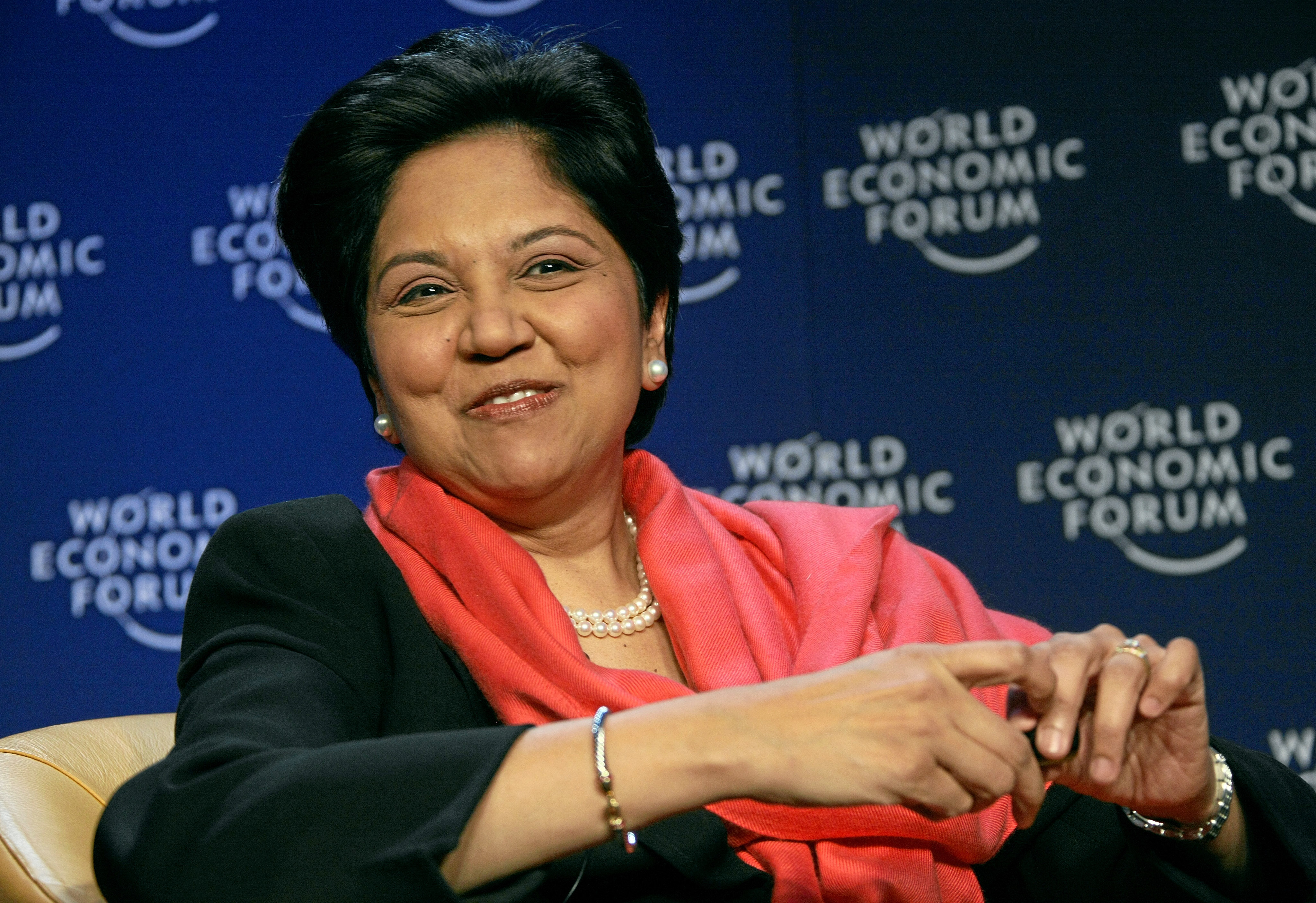 DAVOS/SWITZERLAND, 27JAN08 - Indra K. Nooyi, Chairman and Chief Executive Officer, PepsiCo, USA; Co-Chair of the World Economic Forum Annual Meeting 2008, captured during the session 'Message from Davos: Believing in the Future' at the Annual Meeting 2008 of the World Economic Forum in Davos, Switzerland, January 27, 2008. Copyright World Economic Forum ( by Remy Steinegger